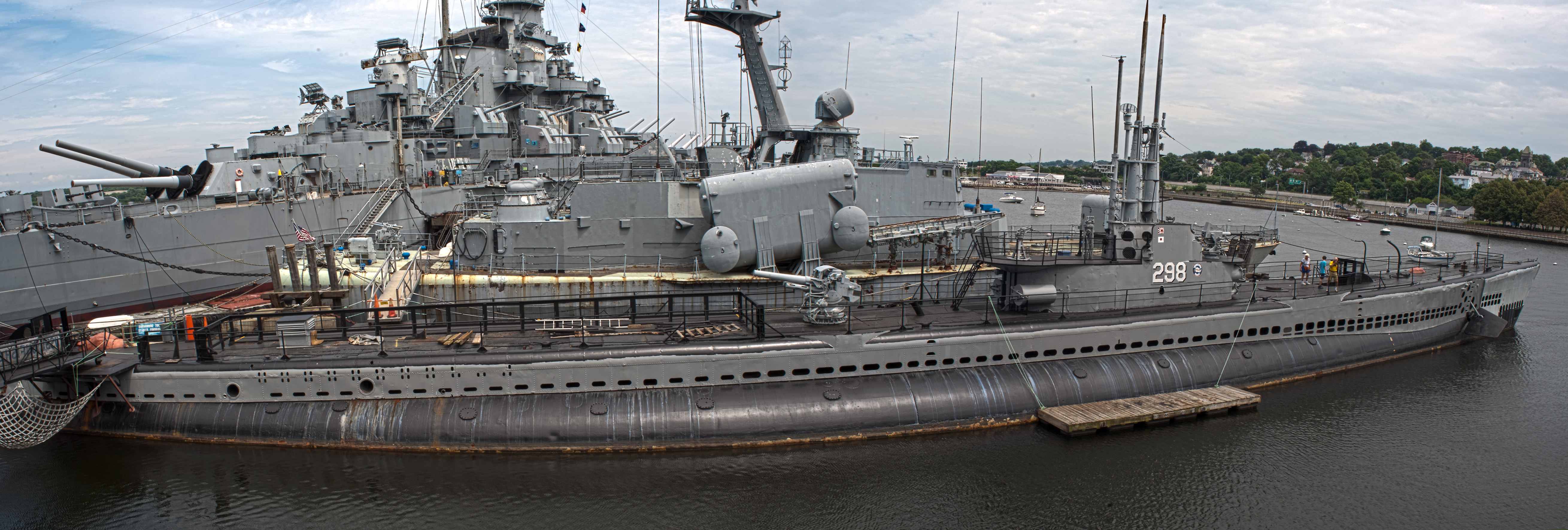 An external view of the USS Lionfish, an un-modified World-War II U.S. Balao-class submarine, docked at Battleship Cove in Fall River, MA.